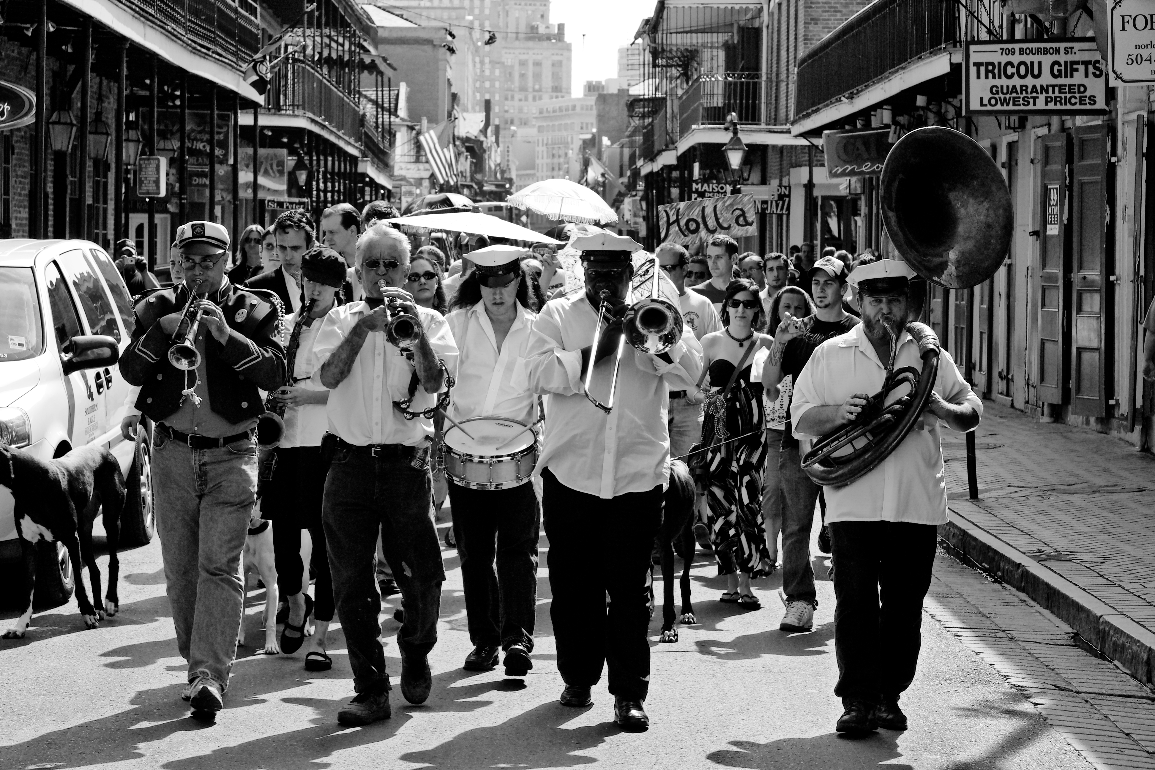 "The Band". Brass band at memorial second line on Bourbon Street, New Orleans